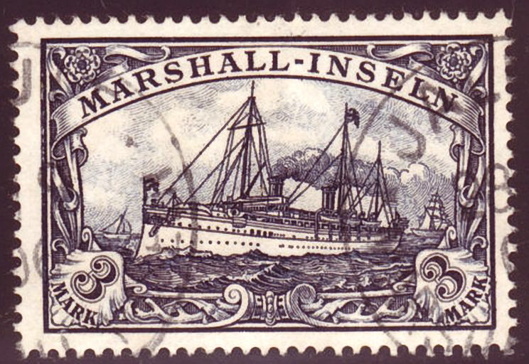 German/Marshall Islands postage stamp, 1901 issue